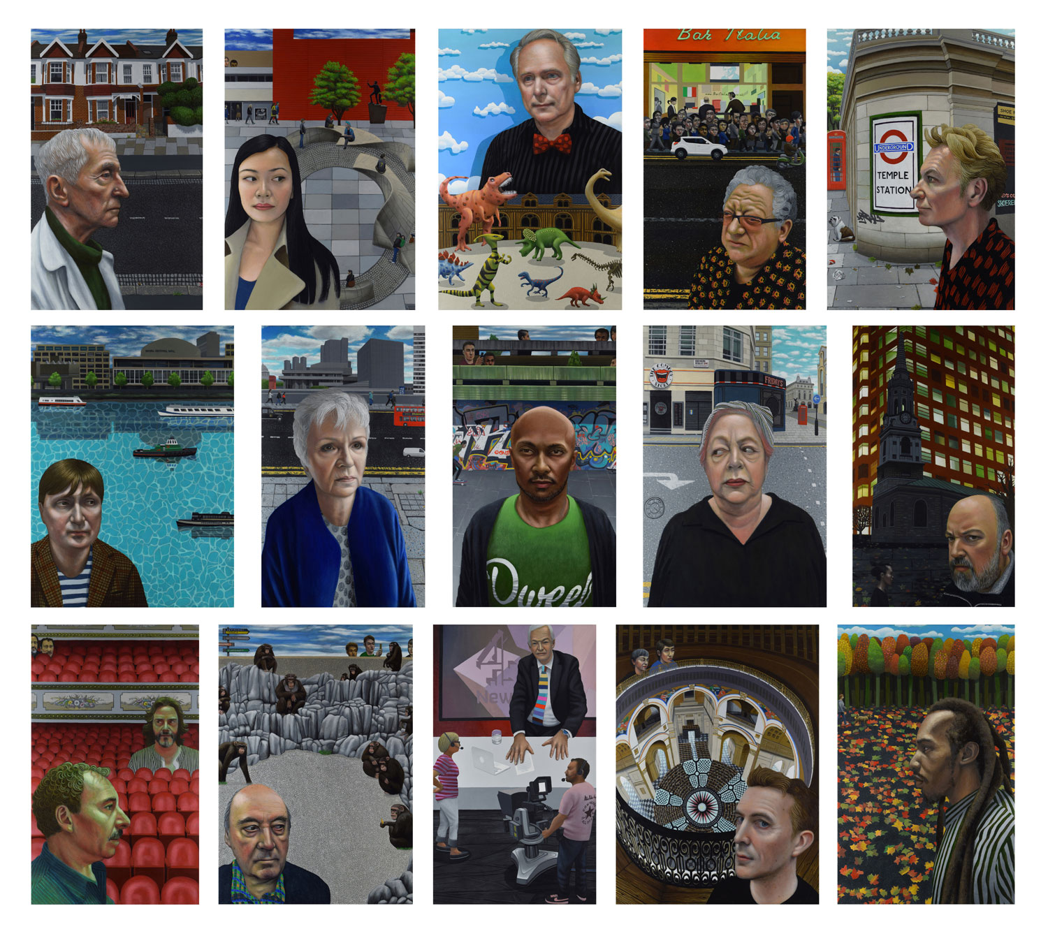 A series of colour oil portraits by artist Carl Randall, of 15 people who have contributed to British culture and society. Each portrait is set against a London backdrop chosen by the sitters.